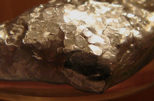 woods metal photo